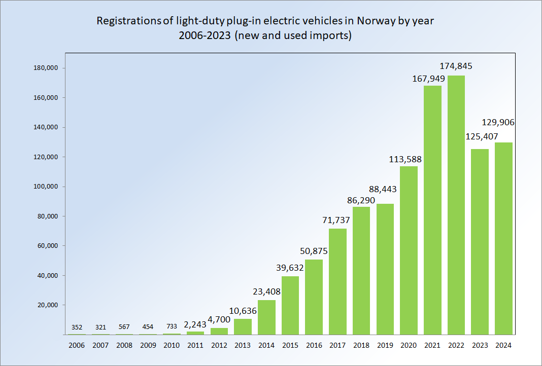 Graph showing historical series of PEV registrations in Norway from 2004 to 2019 (total new registrations includes all-electric cars, plug-in hybrids, all-electric vans and plug-in imports from neighboring countries). Data series taken from: Gronn Bil up to 2013 available here: OFV: 2014 and 2015, 2016, 2017, 2018, and 2019. (Only plug-in vehicles, FCHVs were excluded in the graph) Graphic built by the author using Excel and converted to PNG with Photoshop Elements.